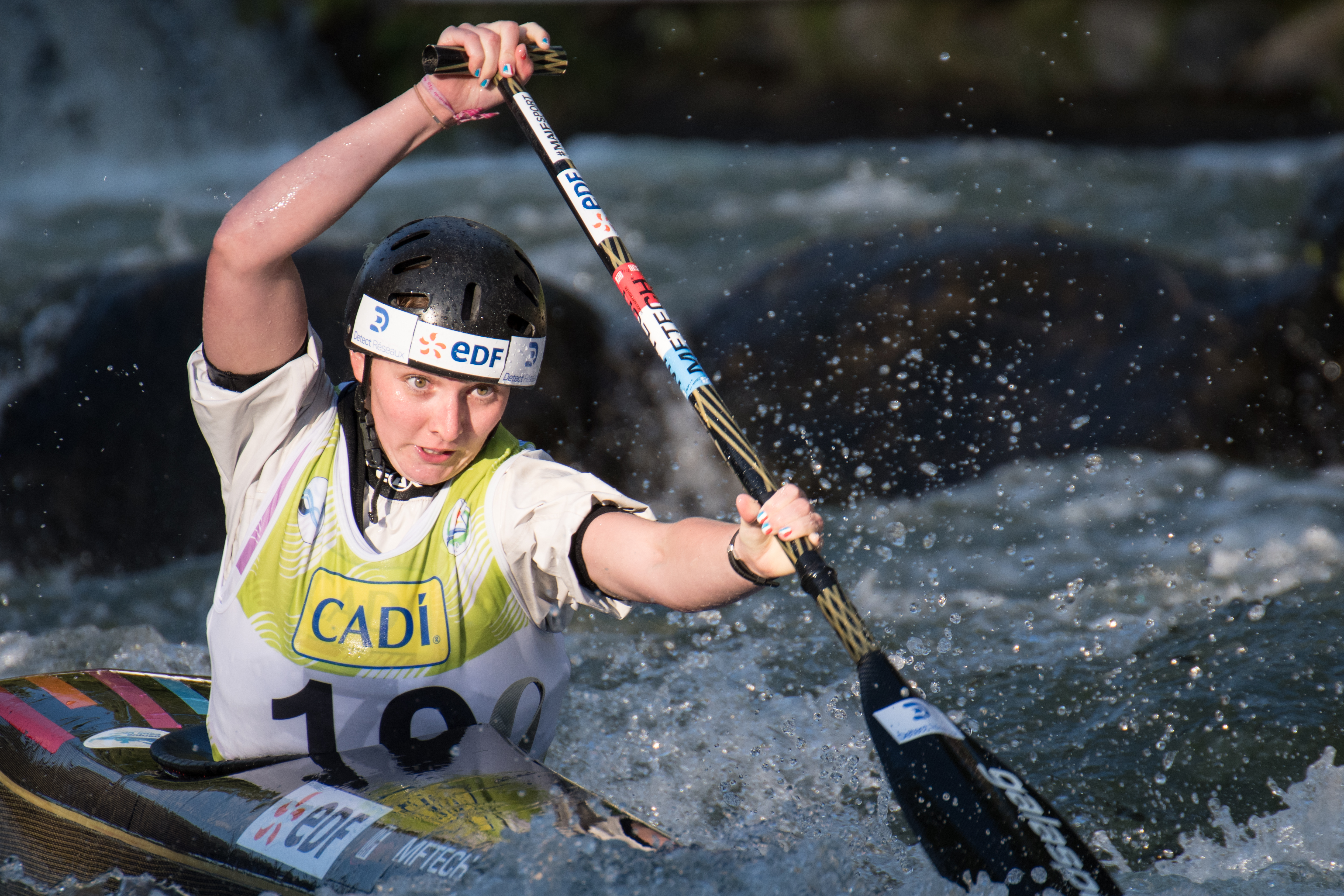 Margot Béziat during the 2019 Canoe Wildwater World Championships in La Seu d'Urgell, Spain.